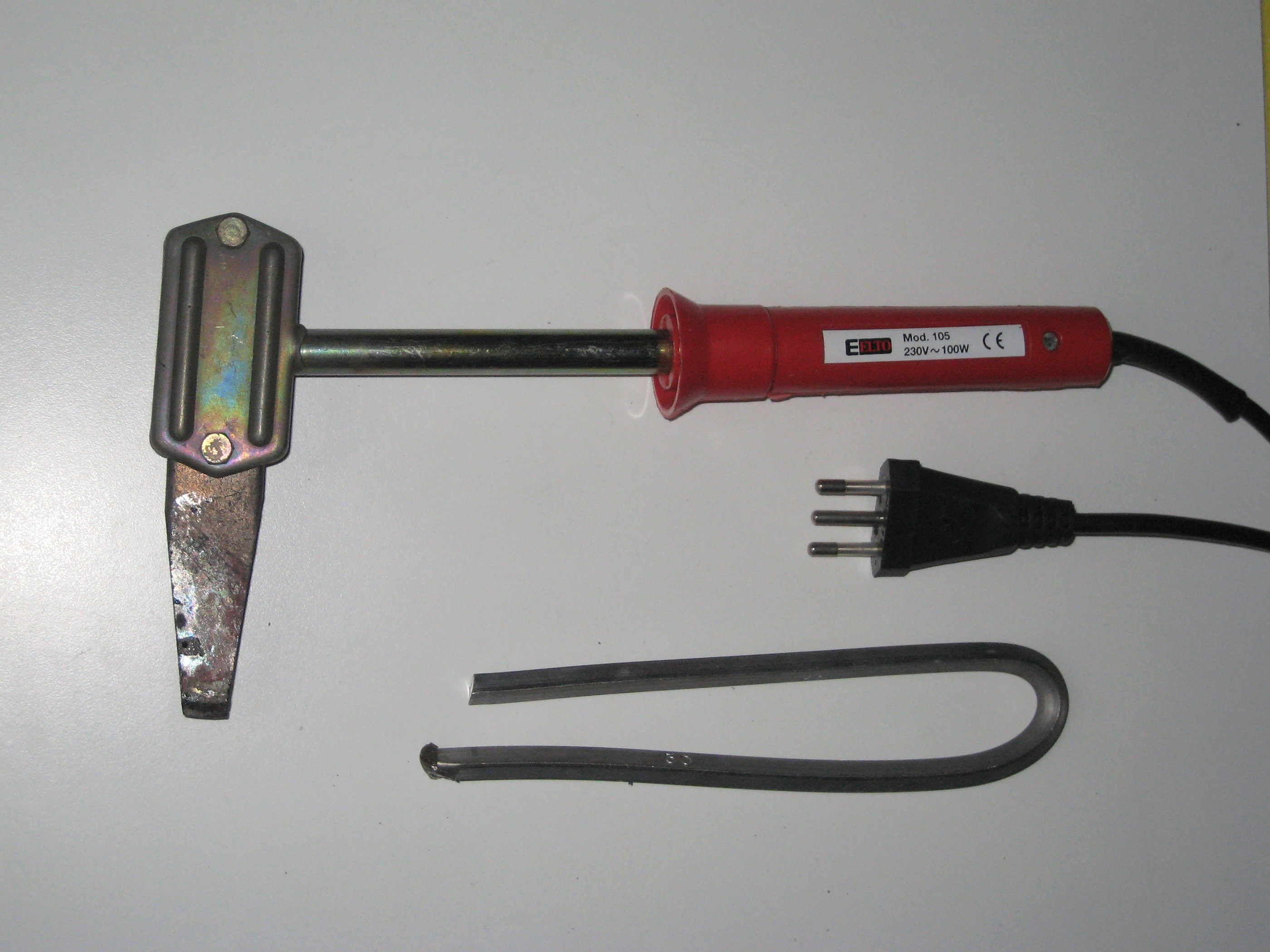 Soldering iron